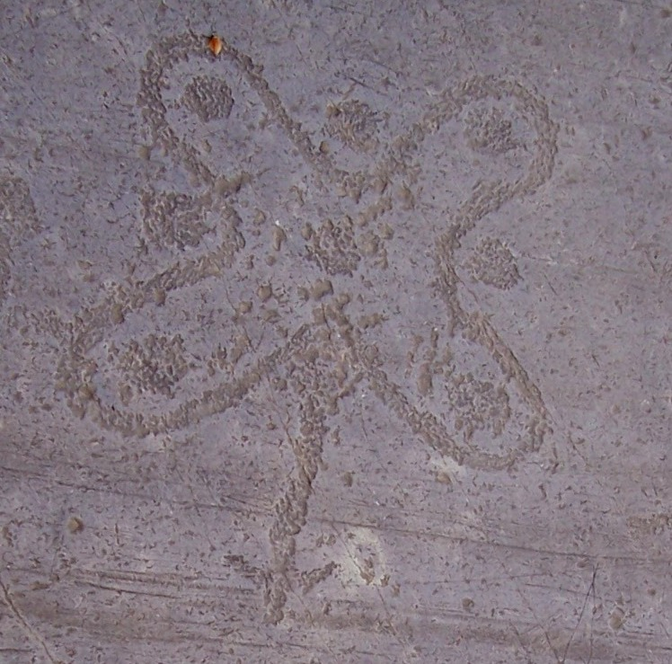 Petroglyph of a Camunian rose. Foppe Area, R. 24, Rock Art Natural Reserve of Ceto, Cimbergo and Paspardo. Nadro, Rock Drawings in Valle Camonica.